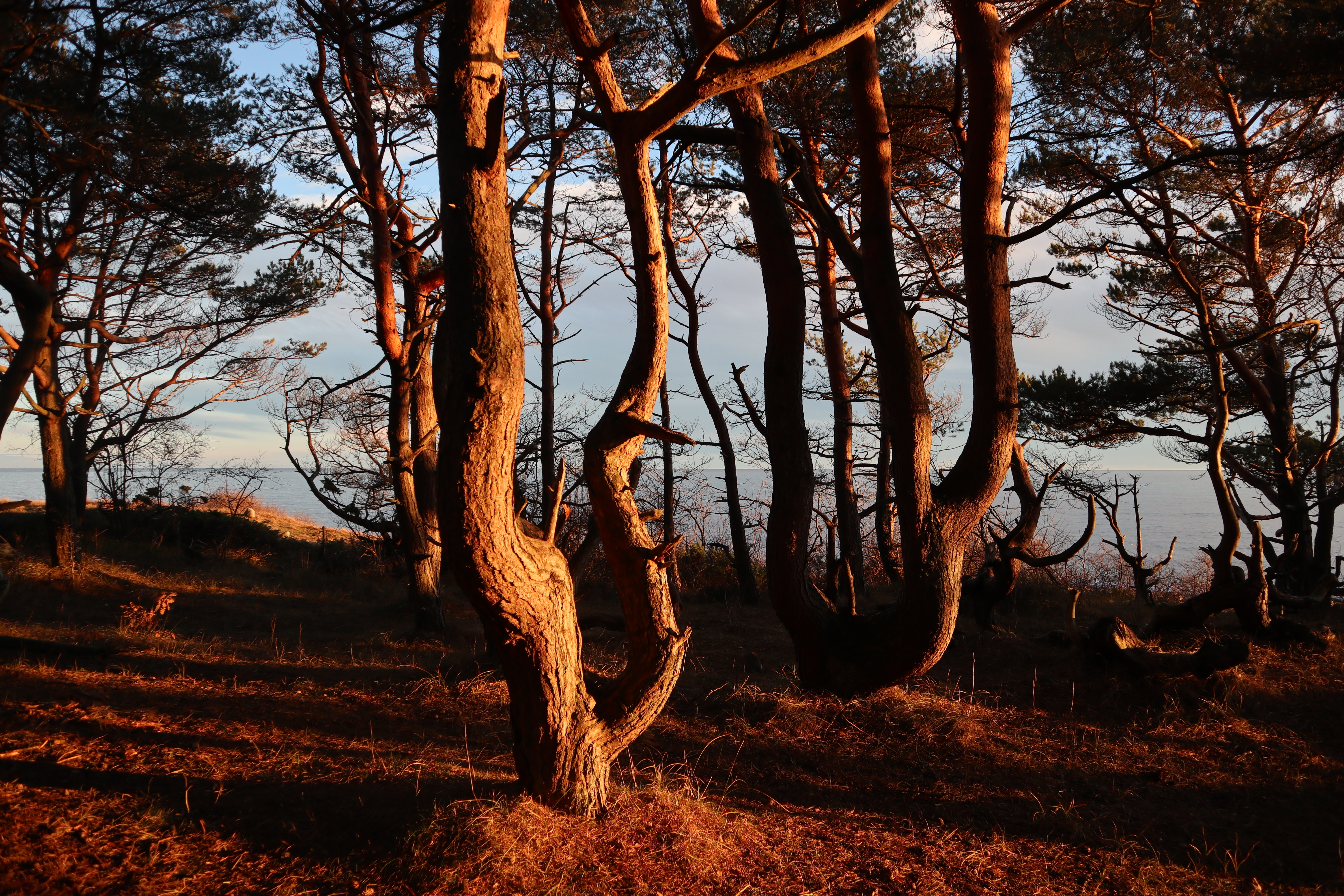 Wood at Hove at Tromøy in Arendal